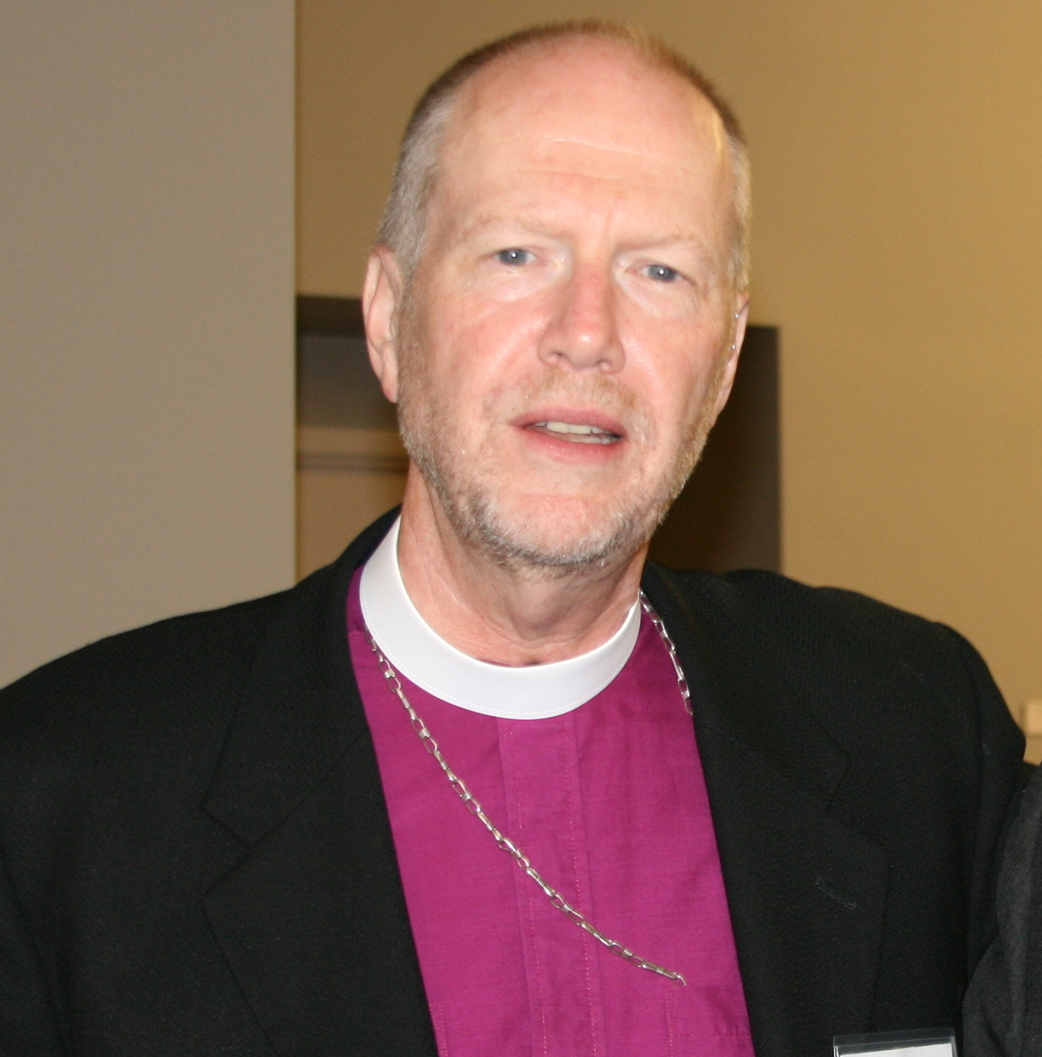 The Rt. Rev. Kirk Smith and the Rt. Rev. Dabney Smith at a reception for the American Friends of the Diocese of Jerusalem.